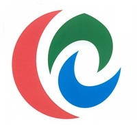 Niyodogawa Kochi chapter